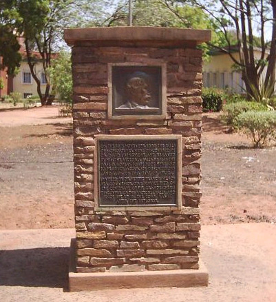 Personnal picture. I set it in Public Domain